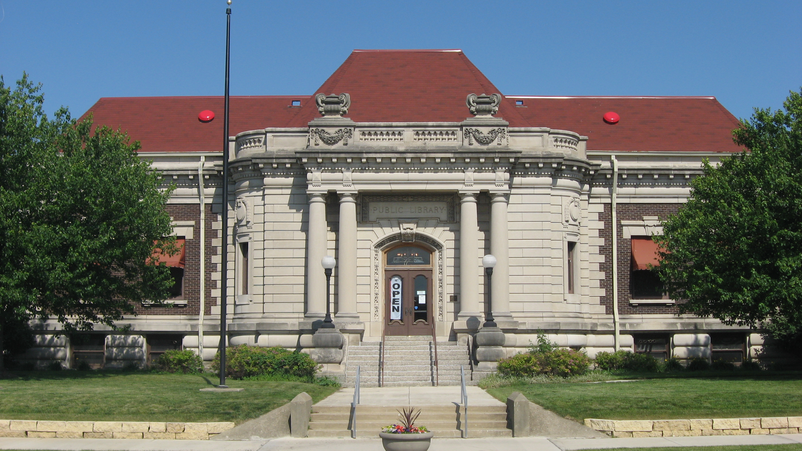 Front of the former Danville Public Library, located at 307 N. Vermilion Street in Danville, Illinois, United States. Built in 1904 and since converted into the Vermilion County War Museum, it is listed on the National Register of Historic Places.